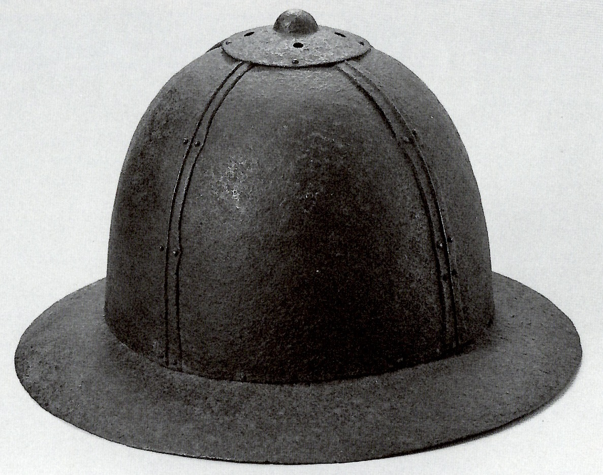 The helmet of a Mongolian army